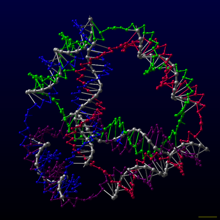 A model of a DNA tetrahedron. Each edge of the tetrahedron is a 20bp DNA duplex, and each vertex is a three-arm junction. In this model each basepair is represented by five pseudo-atoms, representing the two sugars, the two phosphates, and the major groove. The scale bar is 1 nm.